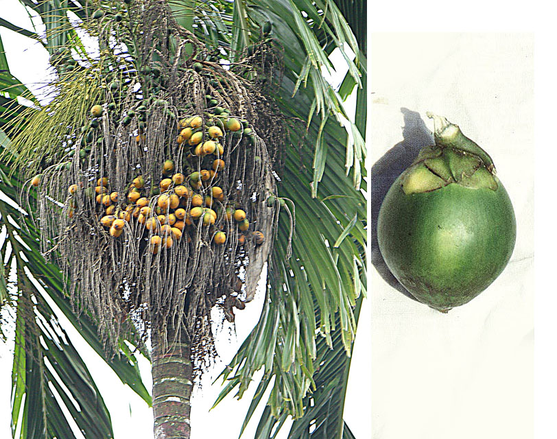 Chewed by half a billion people in conjunction with a piper leaf and an alkaline agent. Known in Indonesia as Pinang. Said to be mildly intoxicating, as well as addictive, carcinogenic and tooth staining. In context at